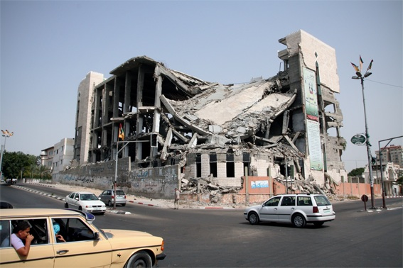 The Palestinian Legislative Council (PLC) building in Gaza City, which was destroyed in the so-called 'Operation Cast Lead' in December 2008/January 2009, in September 2009.